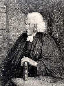 Rev Daniel Dumaresq